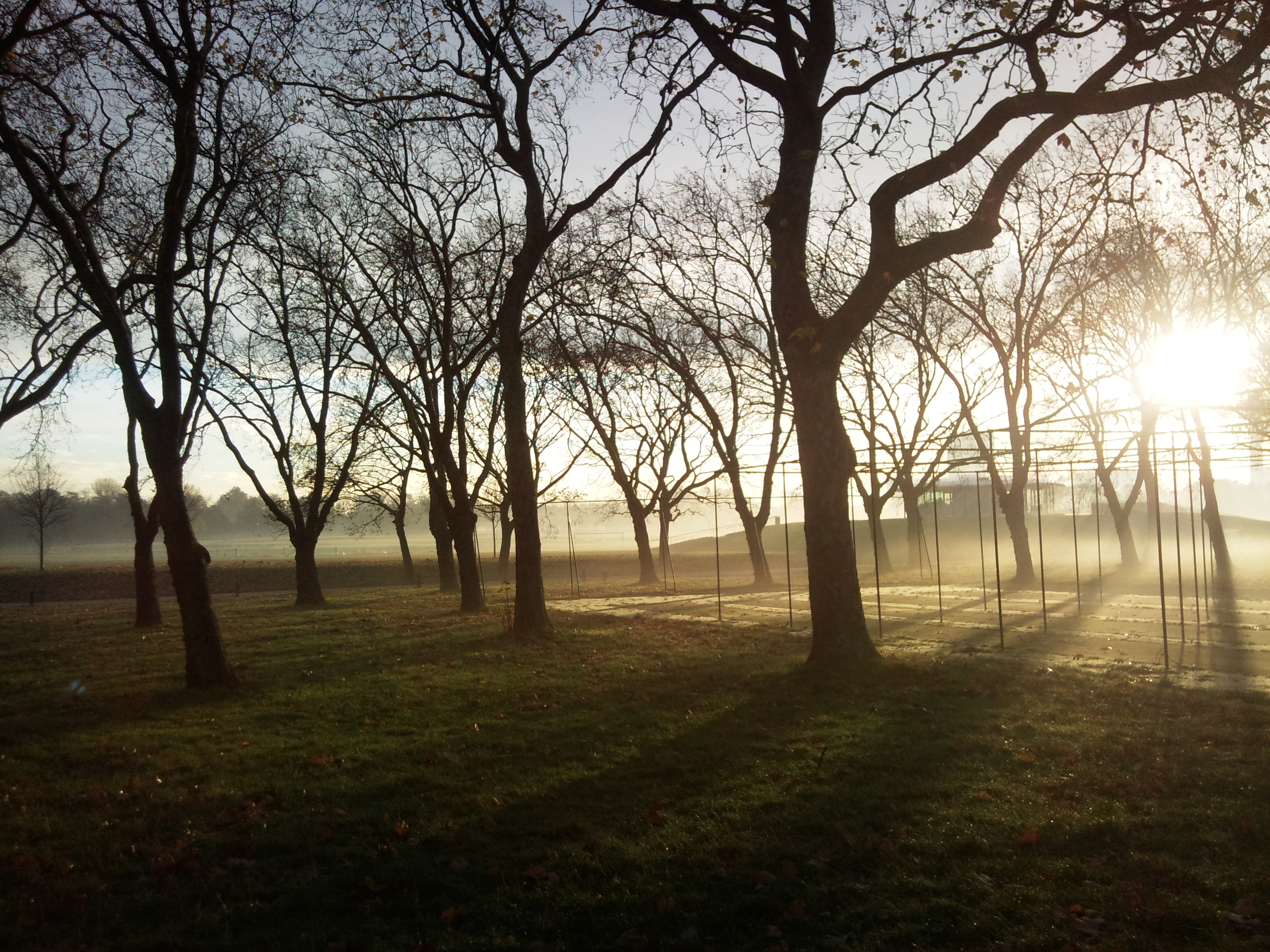 Sunrise in Regents Park, London - UK